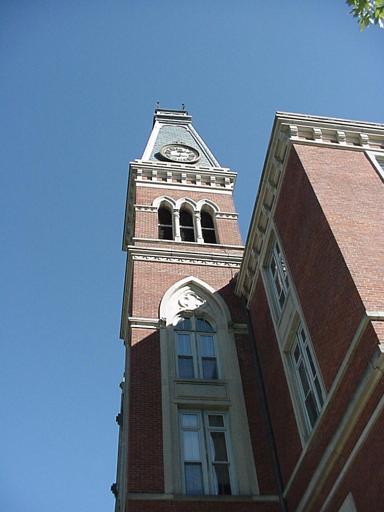 Tower of East College, located on the campus of DePauw University in Greencastle, Indiana, United States. Built in 1869, it is listed on the National Register of Historic Places.